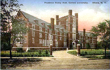 Risley Hall Postcard 1910's